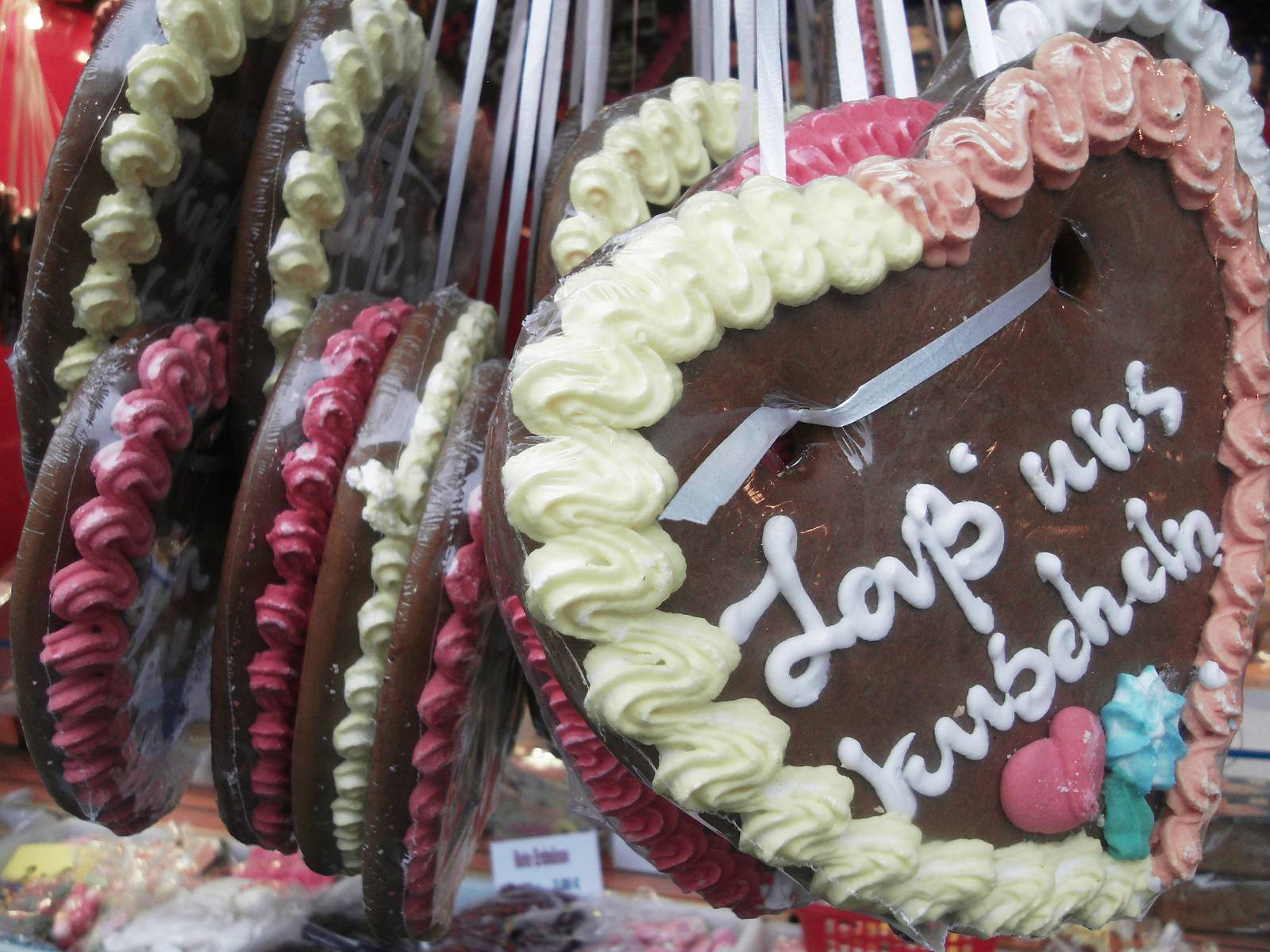 Gingerbread hearts